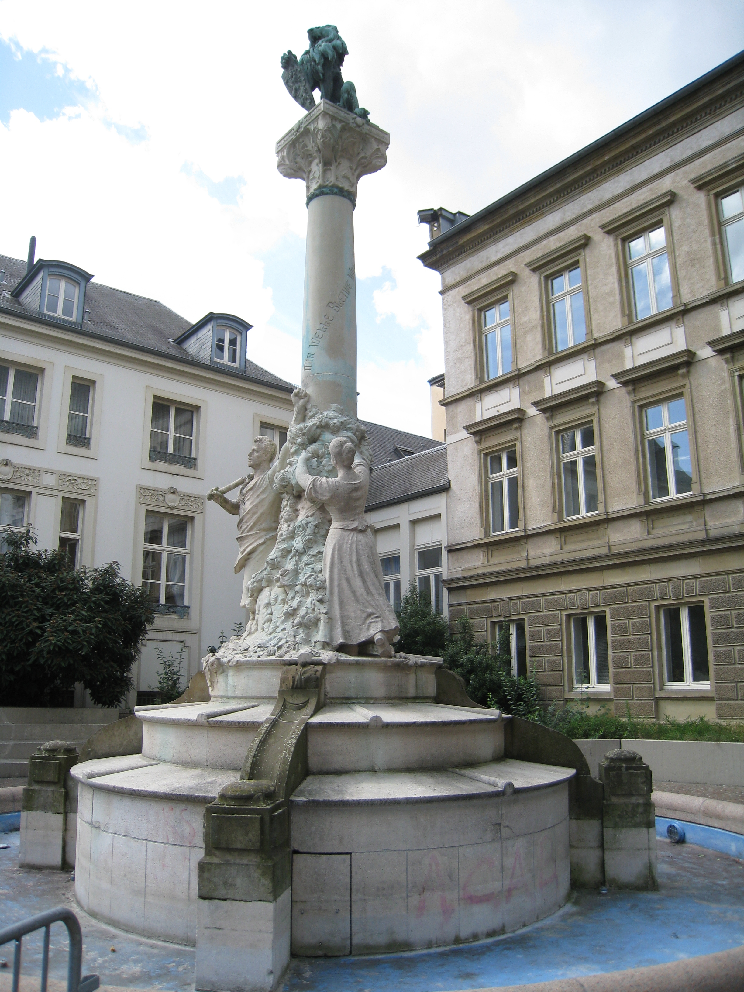 The monument to Dicks and Michel Lentz, national poets of Luxembourg, which stands on the western end of the Place d'Armes in Luxembourg City.